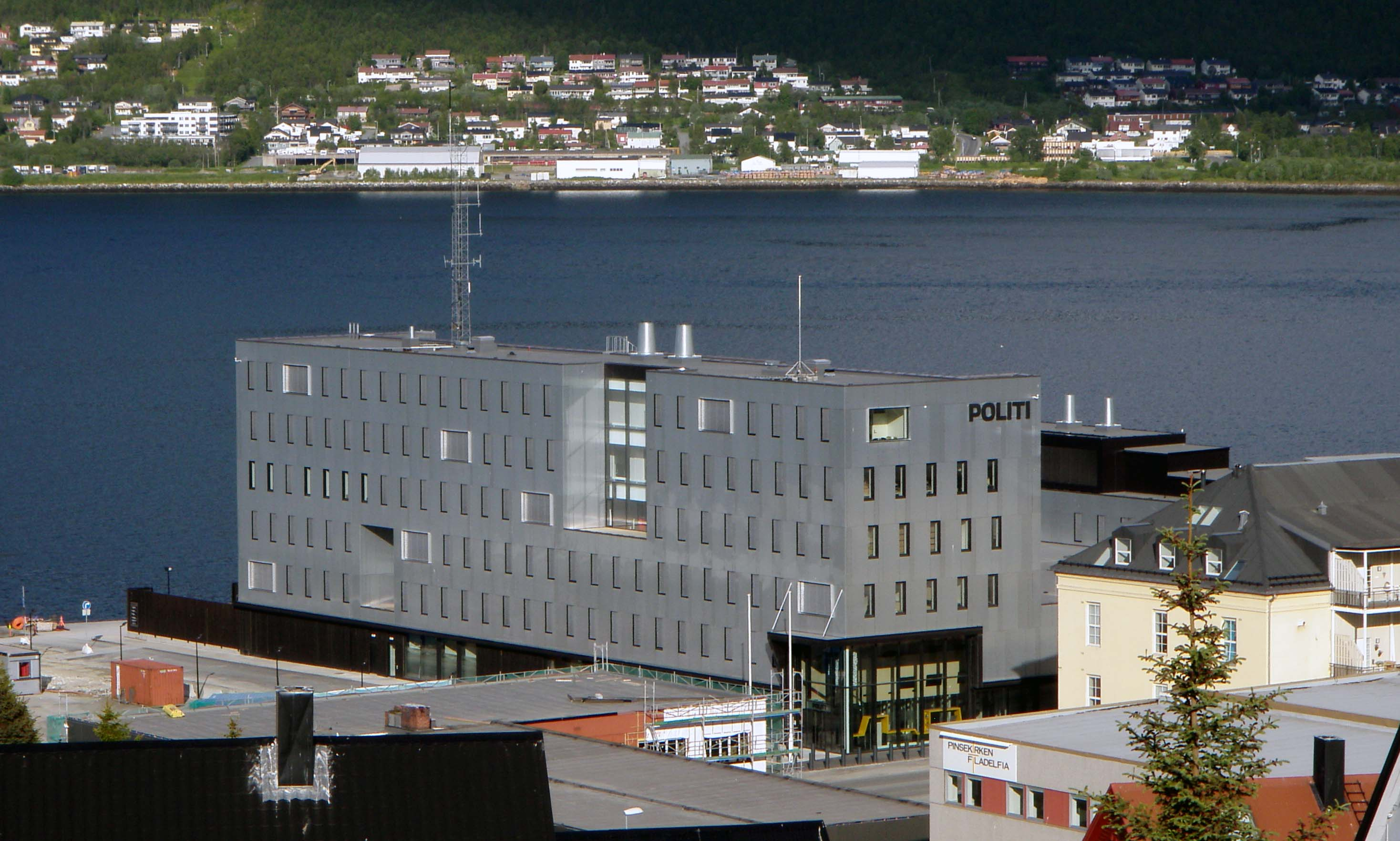 The newly built Tromsø Police Station, headquarters of Troms Police District, in Tromsø, Norway. Photo taken from a nearby hill.